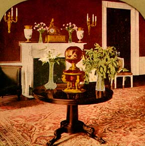 White House Red Room, from 19th century stereopticon card photo